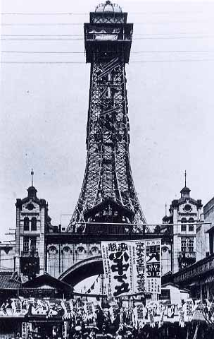 The Original Tūtenkaku